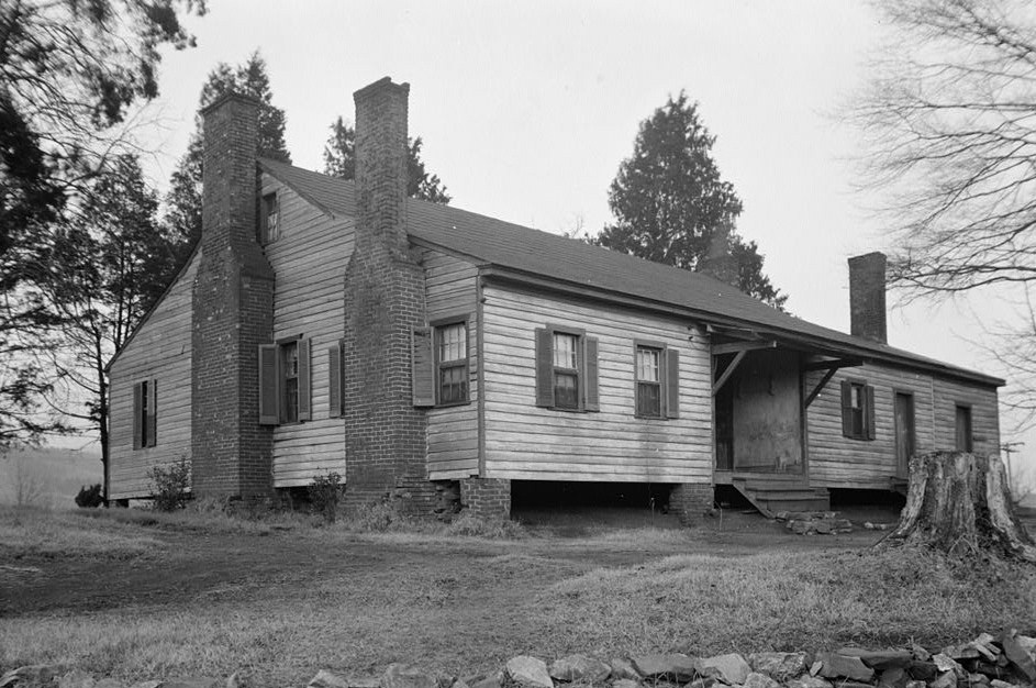 Dudley Snow House, 704 Snow Street, Oxford (Calhoun County, Alabama), rear view, cropped